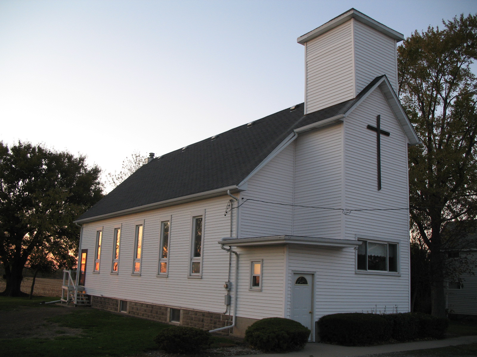 A church in Cheneyville, Illinois, looking toward the northwest